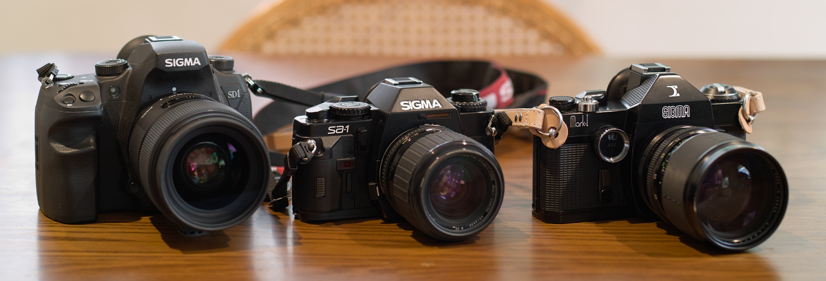 Three Sigma «1» cameras: Sigma SD1, Sigma SA-1 and Sigma Mark-I.